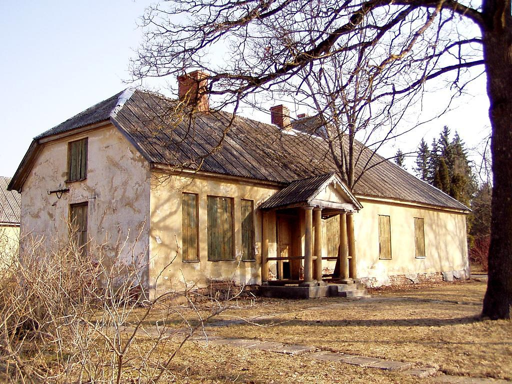 Jaunkalsnava manor house